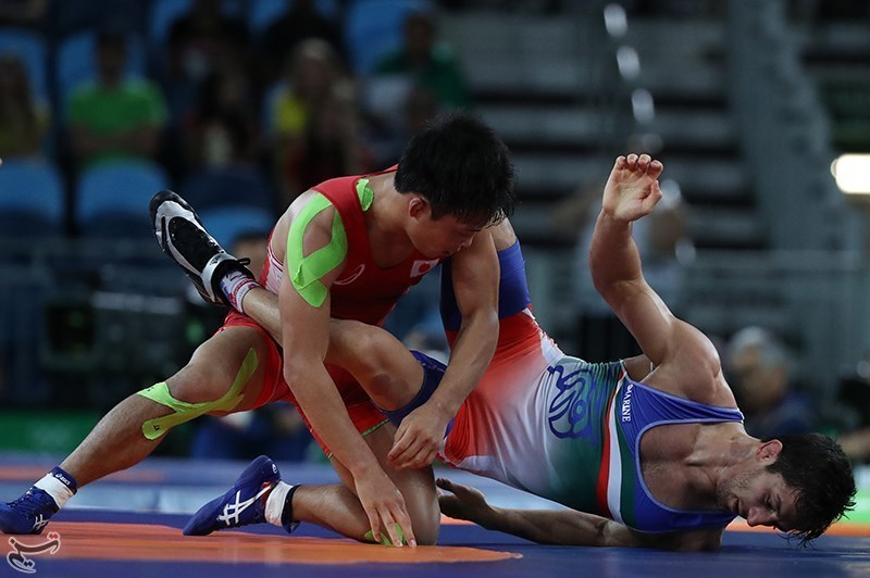 Wrestling at the 2016 Summer Olympics to 59 kg